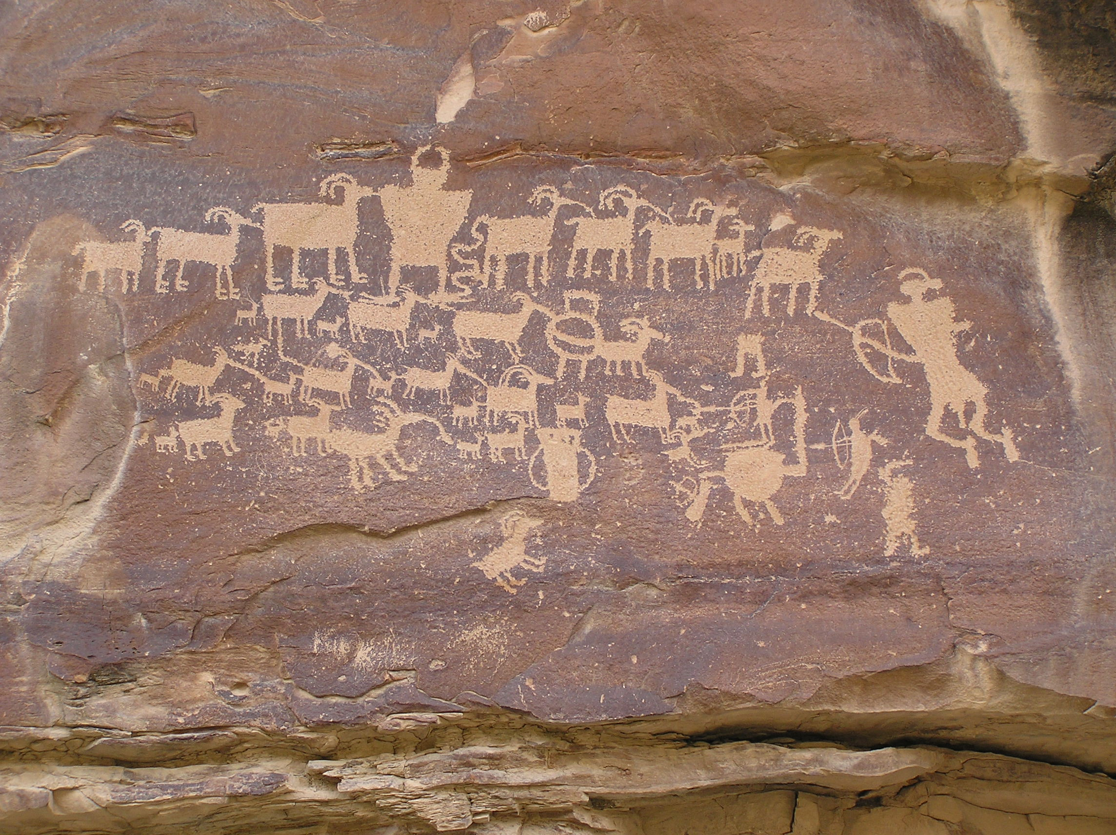 Hunt Scene petroglyph along Nine-Mile Canyon National Backcountry Byway, near Price, Utah.